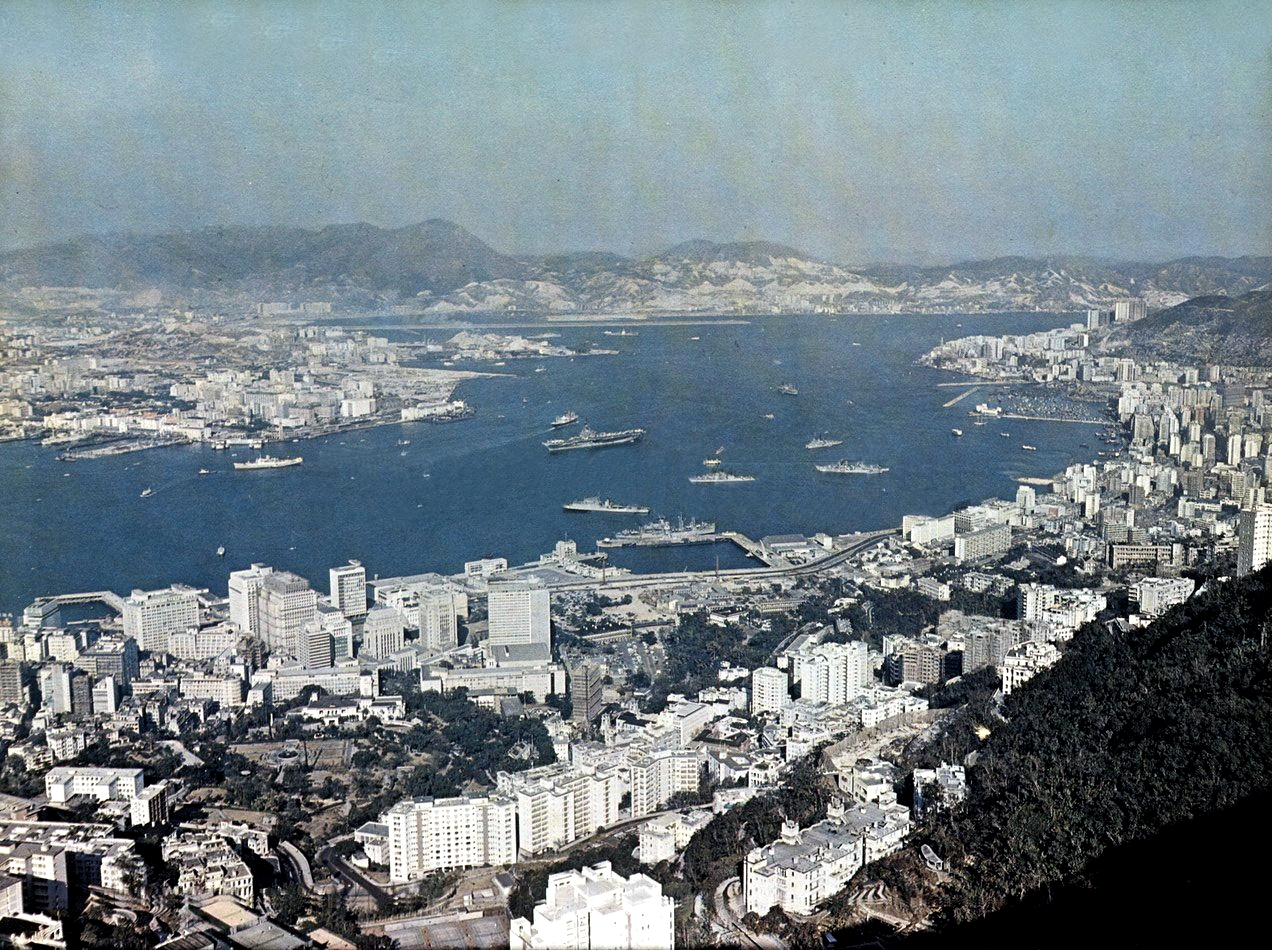 The U.S. Navy aircraft carrier USS Yorktown (CVS-10) at Hong Kong, circa in 1964. Yorktown, with assigned Carrier Anti-Submarine Air Group 55 (CVSG-55), was deployed to the Western Pacific and Vietnam from 22 October 1964 to 17 May 1965.